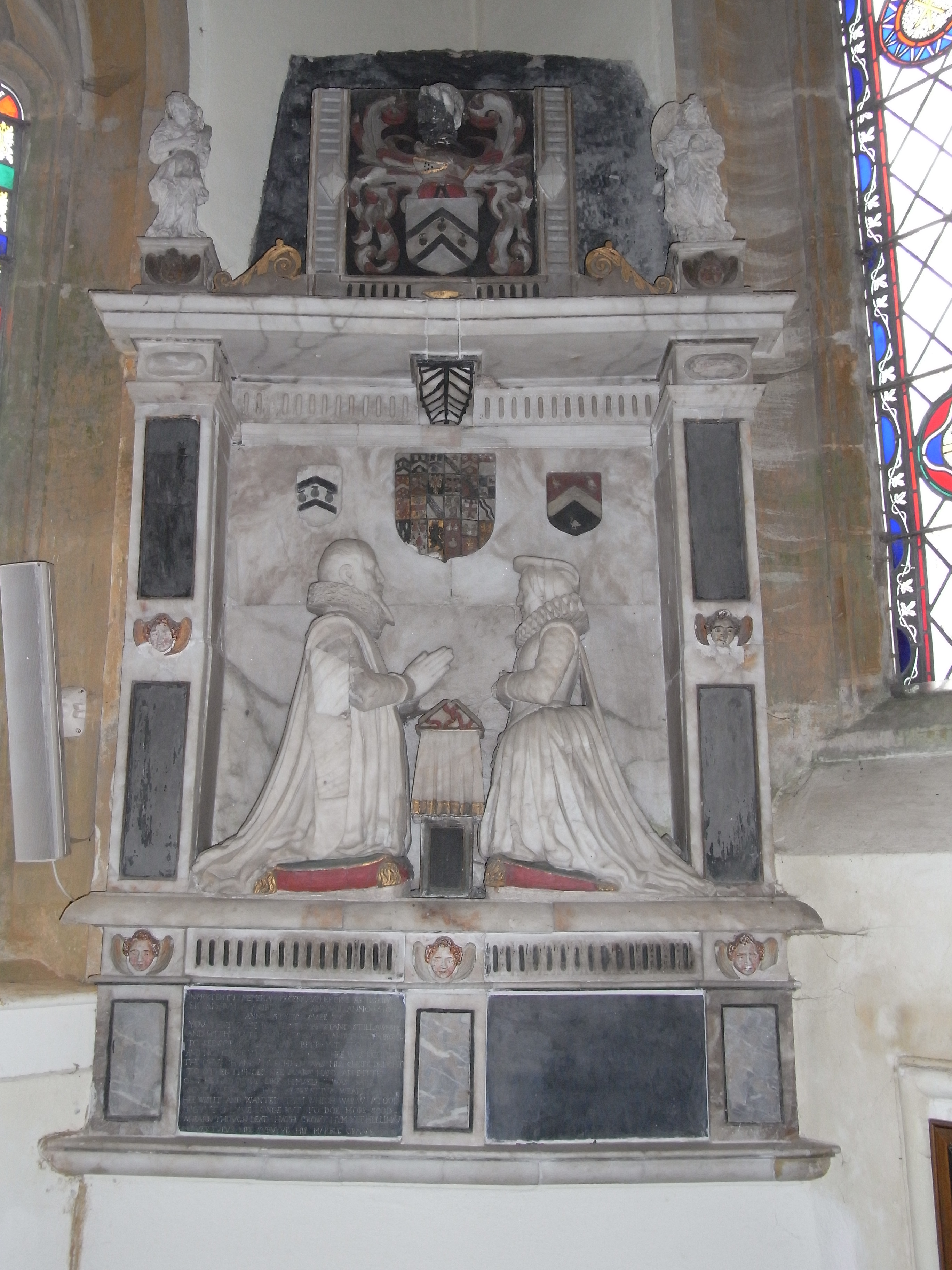 Mural monument to Roger Ayshford of Ayshford Manor, Burlescombe parish, Devon. Inscription: "In mertem et memeriam Regery Aysheforde armigery epitaphium obiit ... die Januarii anno 1610 anno aetatis suee 76 You that passe by this tombe stand still awhile; and with youre tongues and teares the tym begueil; to see soe good a man betr(ayed?) to dust; and not cause why save that hee was rightjust; the Church and churchmen was his cheife delight; to other thinges hee scarse hadd appetite; or if he had twas like himself twas rare; so zeallus all his recreativs weare; hee wisht and wanted tym which was wi(th?)stoode; not to lyve longe but to doe more good; whearin though death hath crost hym yet heell have; his vertueus life survyve his marble grave".